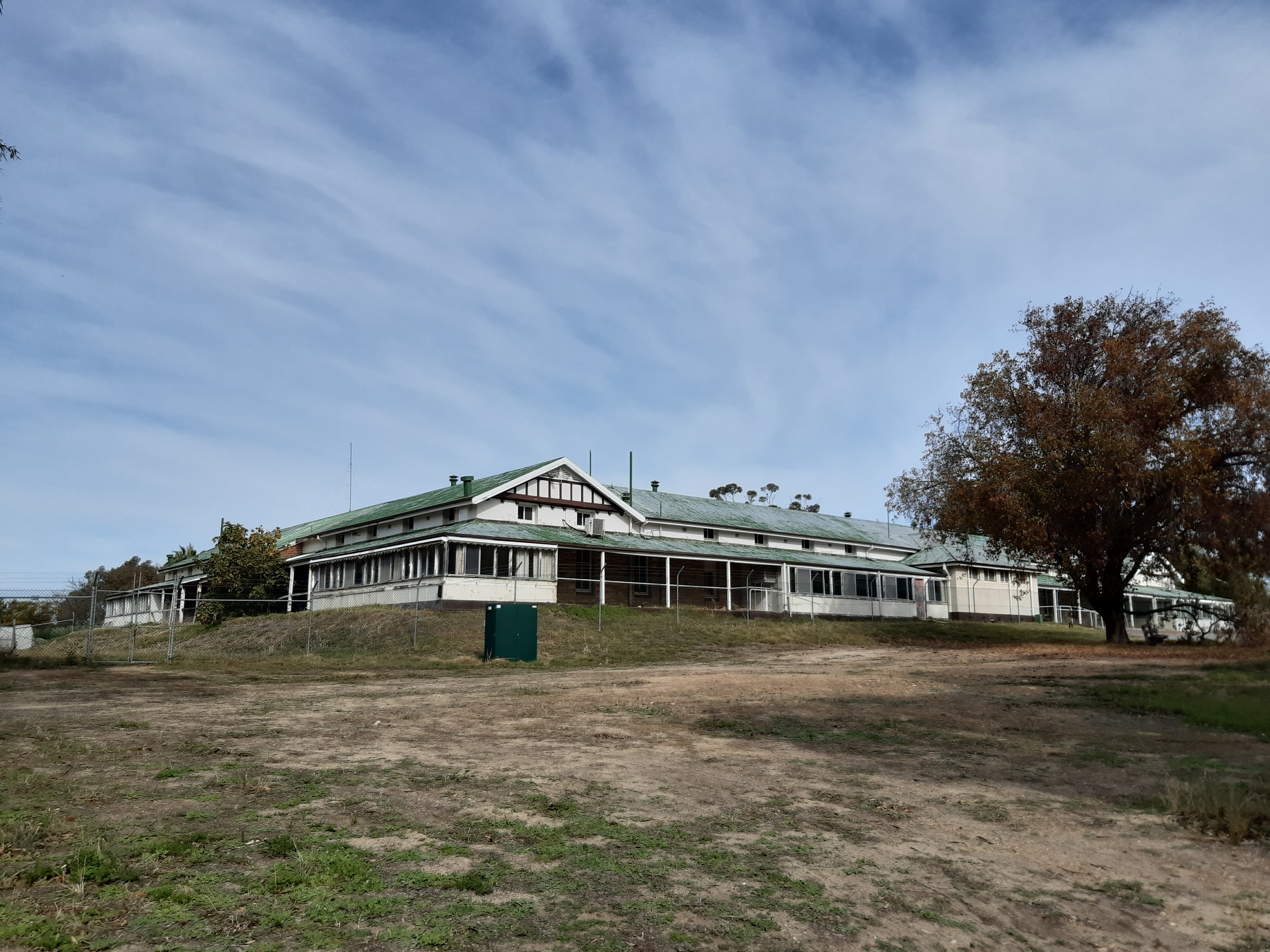 The heritage listed (Inherit # 3374) Sunset Hospital, Dalkeith, Western Australia.